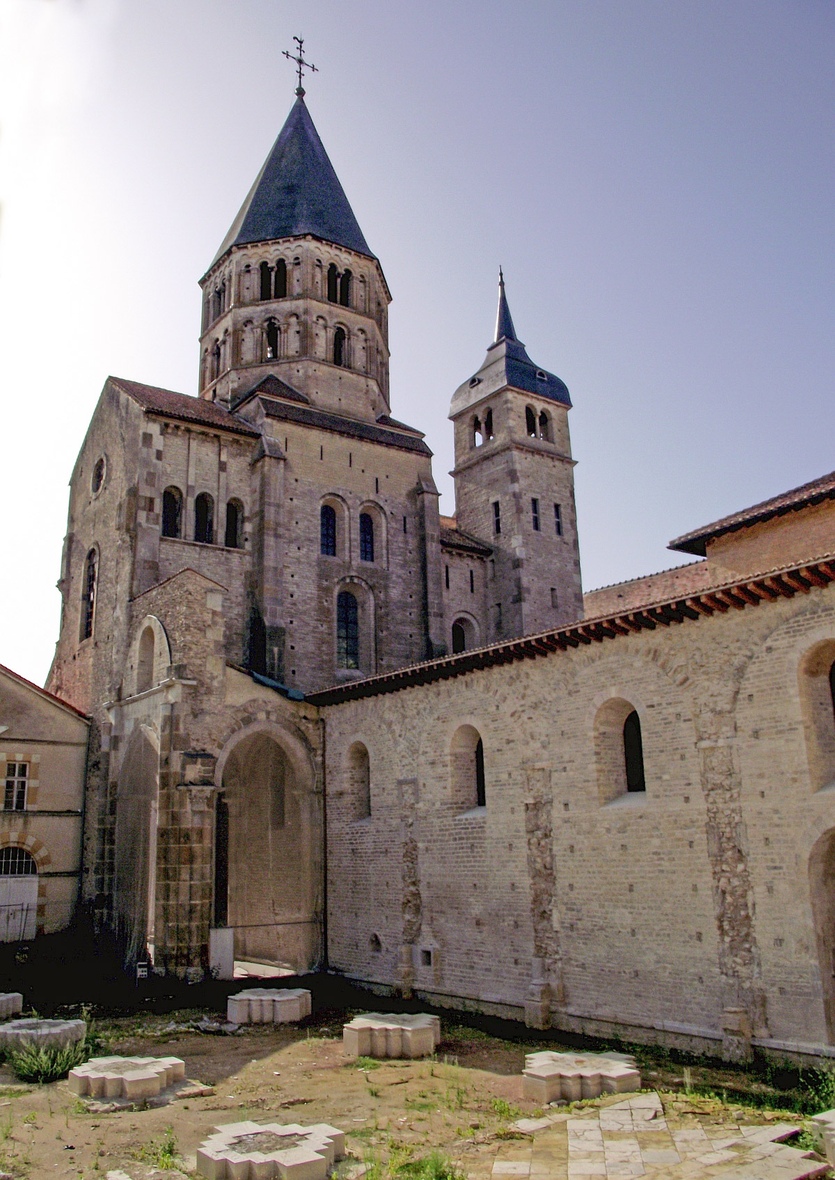 Cluny Abbey .